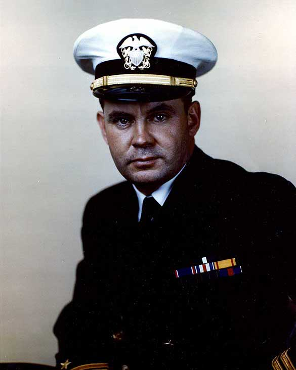 Photo #: 80-G-K-13927 (Color) Lieutenant John D. Bulkeley, USN Photographed circa Spring 1942, shortly before he was promoted to Lieutenant Commander and awarded the Medal of Honor for his actions while in command of Motor Torpedo Boat Squadron Three during the Philippines Campaign, December 1941-April 1942. Official U.S. Navy Photograph, now in the collections of the National Archives.